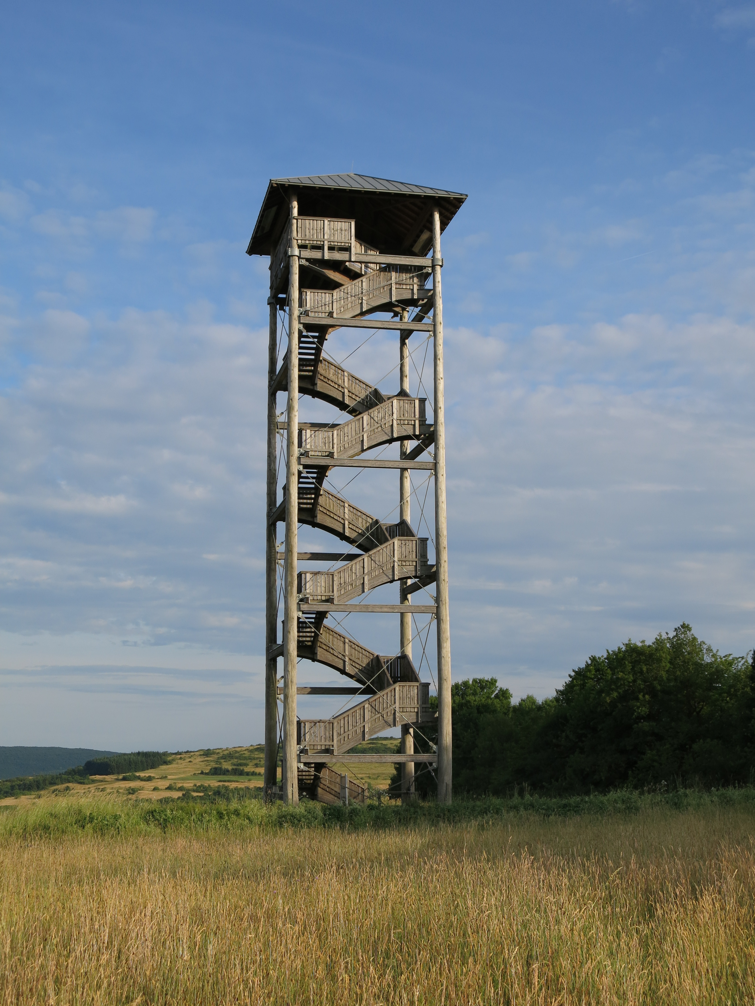 The Heimberg-Tower near Schlossböckelheim